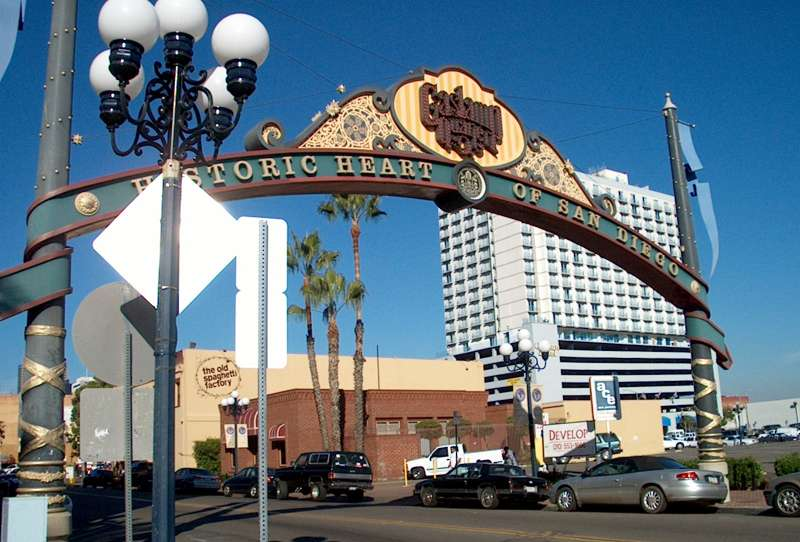 Street archway entrance to the Gaslamp Quarter — Downtown San Diego, California. It was taken in 2001 by myself.